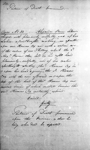 Death sentence for Alexander Pearce (b. 1790; d. 1824), executed for Murder July 19th 1824